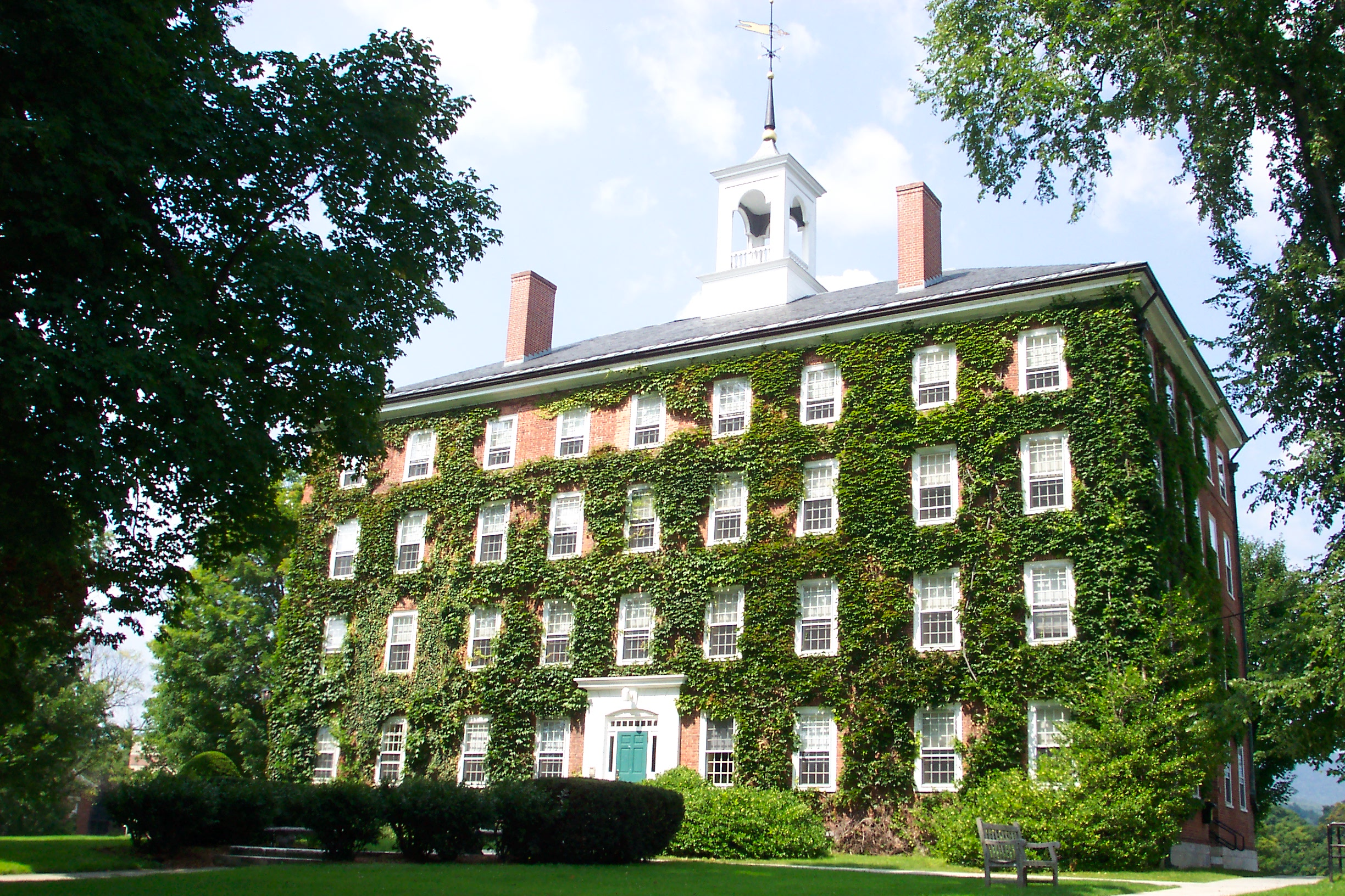 Photo of West College, the oldest building at Williams College.